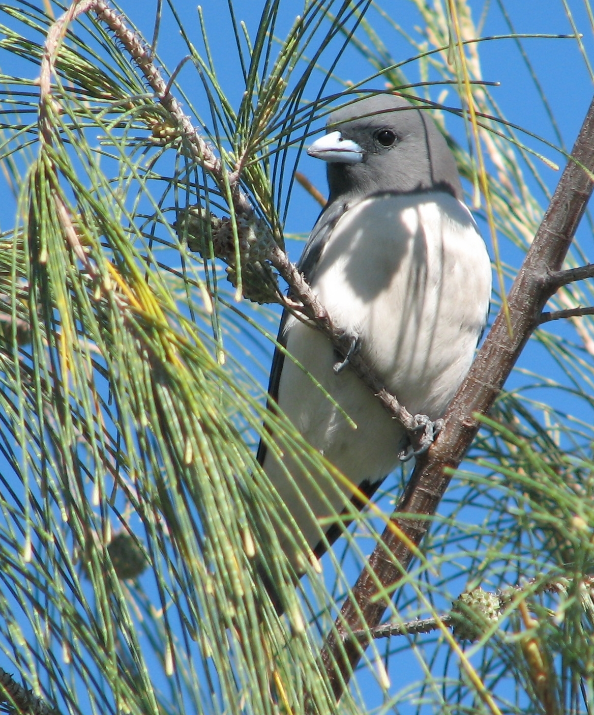 The White-breasted Woodswallow is just one of more than 210 bird species found in Lake Awoonga, Central Queensland.